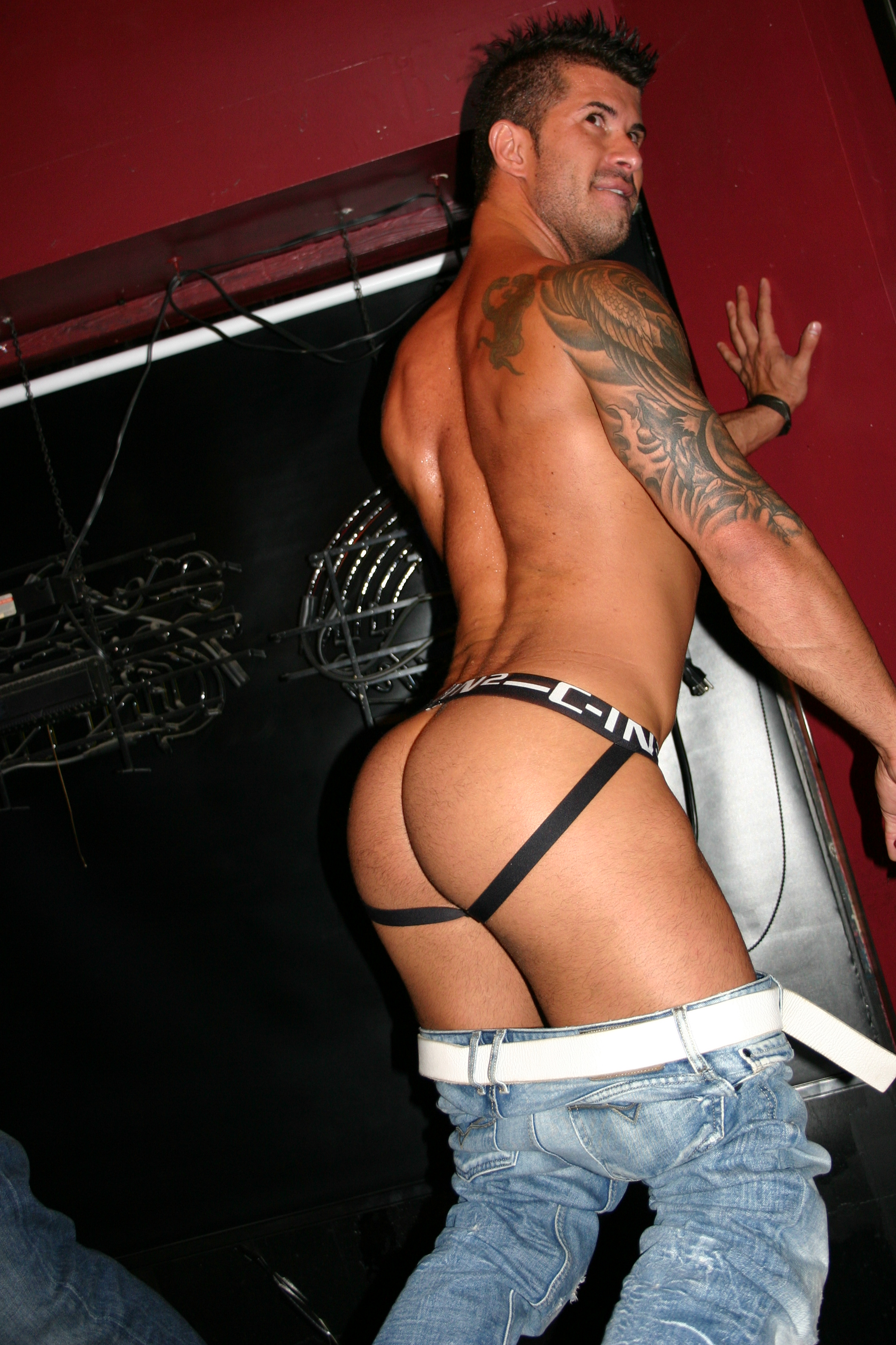 GrabbysRecoveryBrunch_20090524_047